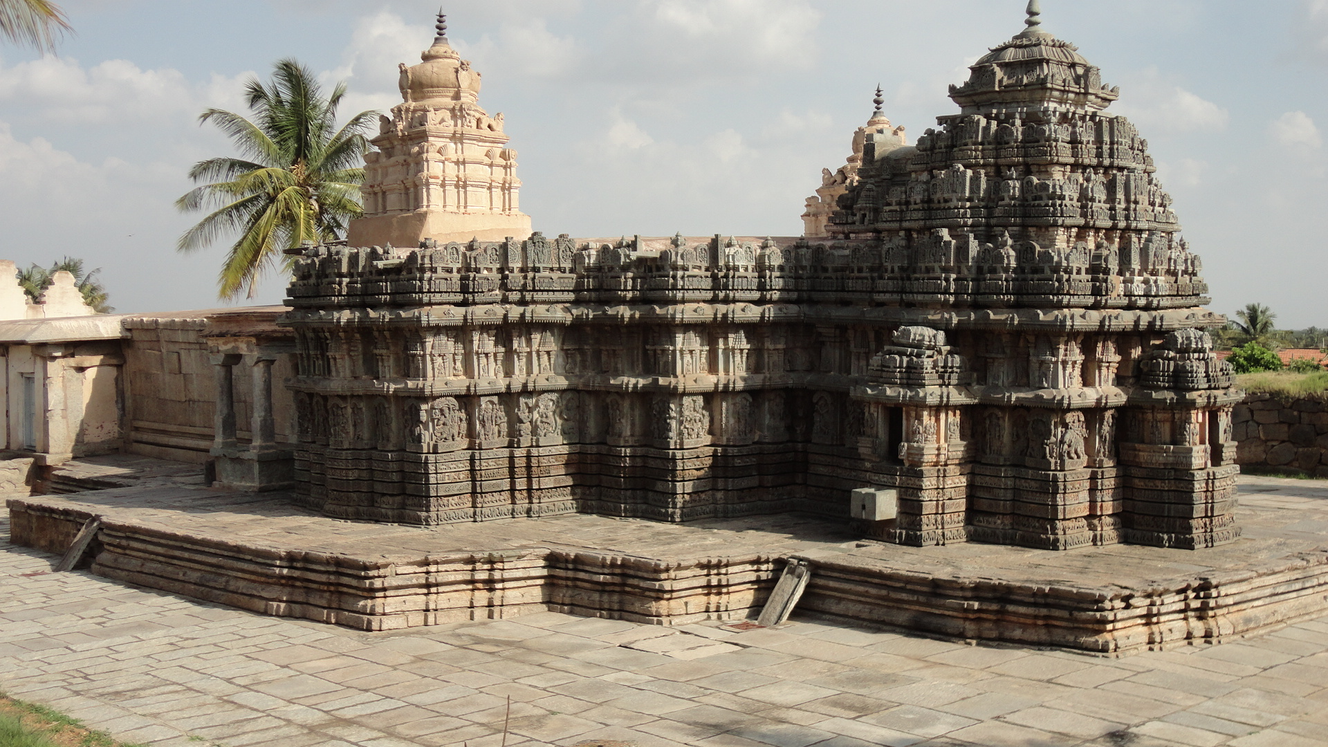 This photograph contains the focused view of the north-western sanctorum(dome) part of the Lakshminarasimha temple, Nuggehalli, Hassan, Karnataka. It displays all the three sanctorum with the outer most being the most ancient. The two small stone block protruding at the bottom of the sanctorum is to drain out the holy water (mixture of turmeric, fruits, kumkum, camphor and water etc.) sprinkled on the idols and washed out during worship.